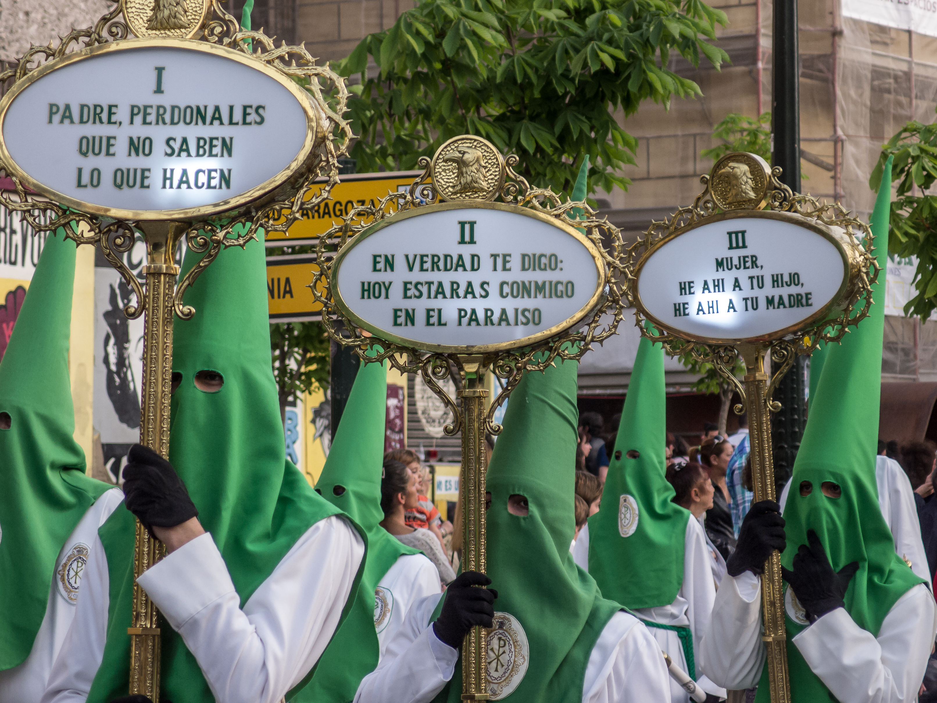 OLYMPUS DIGITAL CAMERA This is a photography of a Folklore festival in Spain (Wikidata id Q9075892).